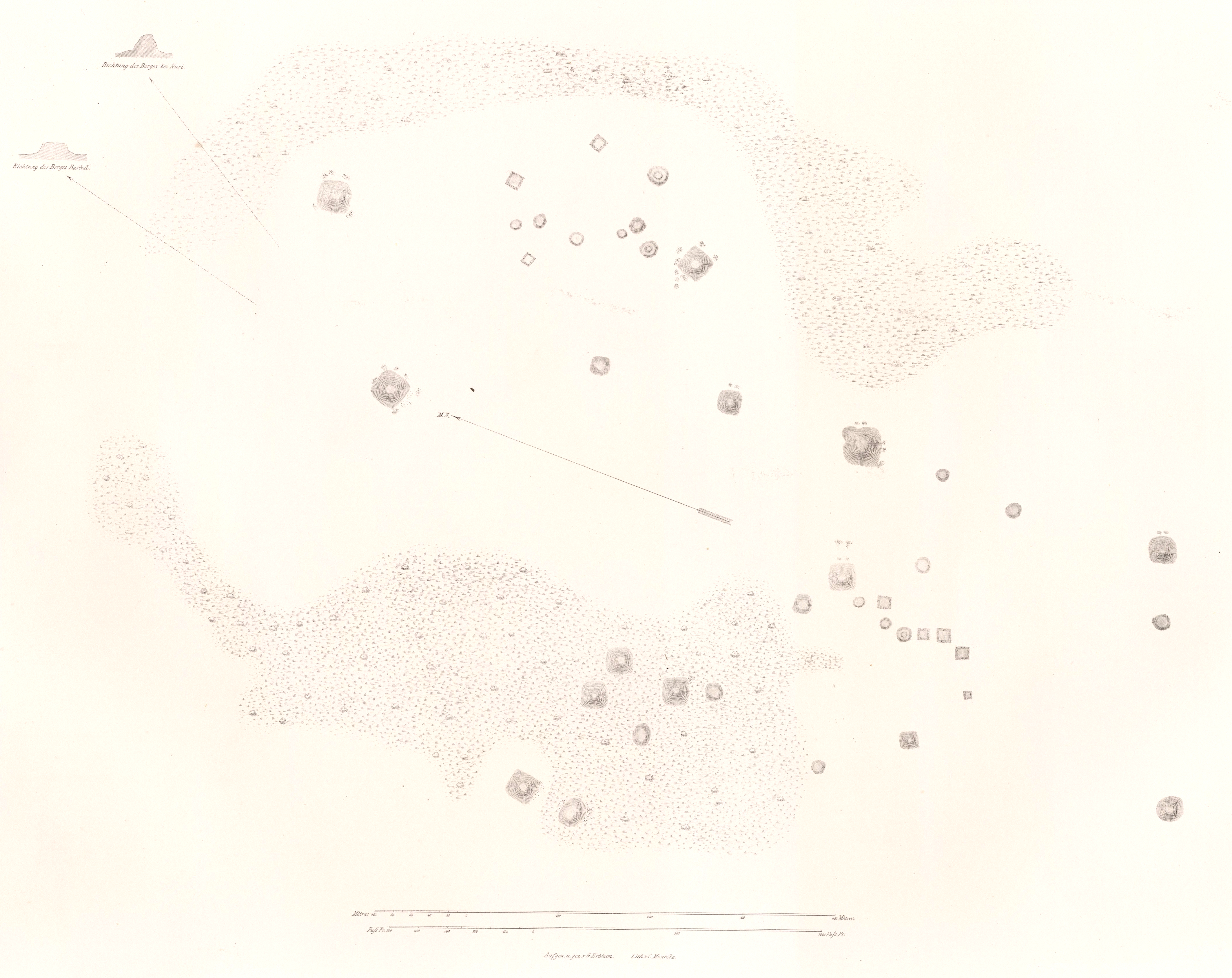 Situationsplan des Pyramidenfeldes von Tanqassi.